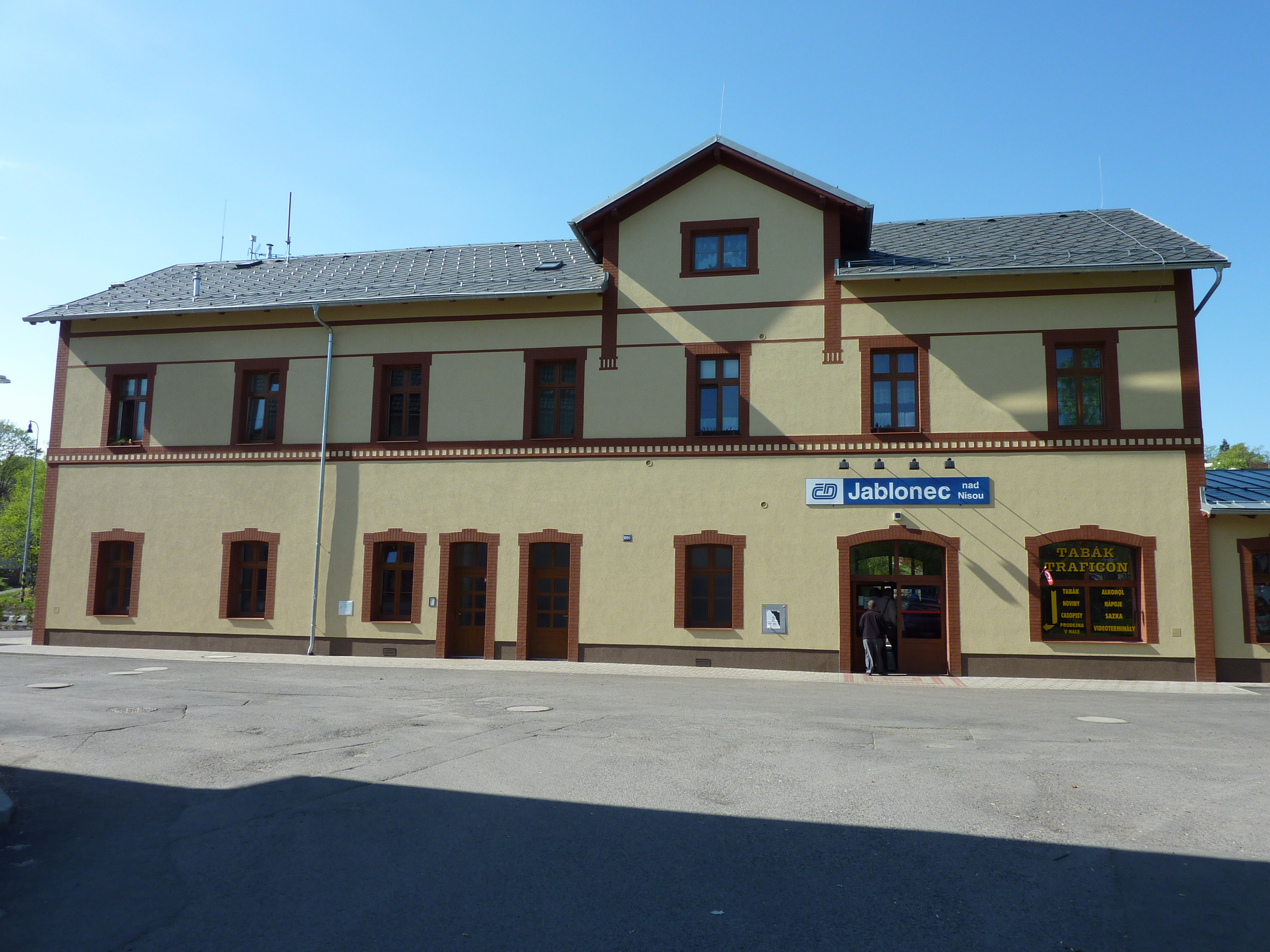 Railway station Jablonec nad Nisou, in Czech Republic, 2011